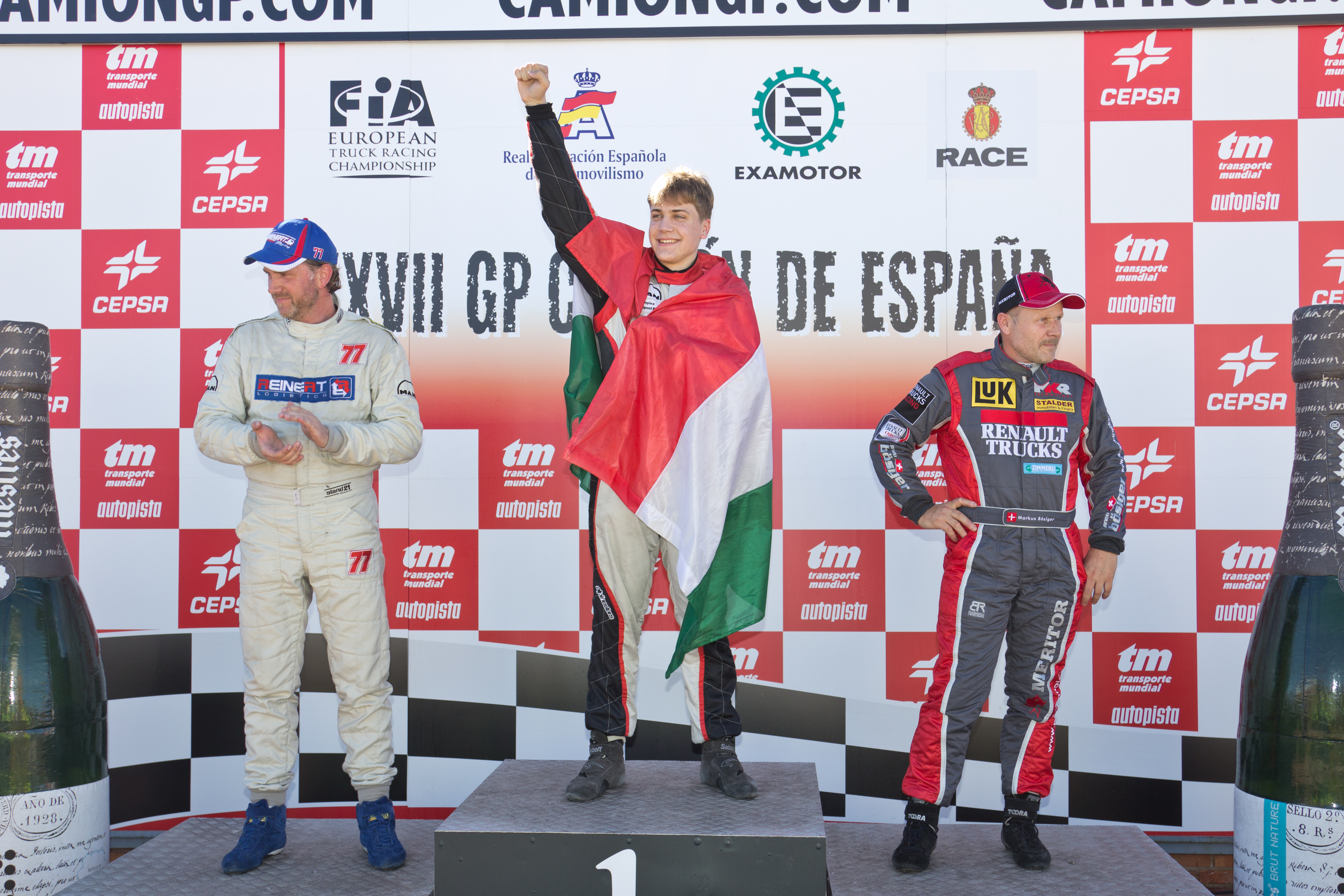 Benedek Major, René Reinert and Markus Bösiger atthe podium of the fourth race of the Spain Truck GP 2013.